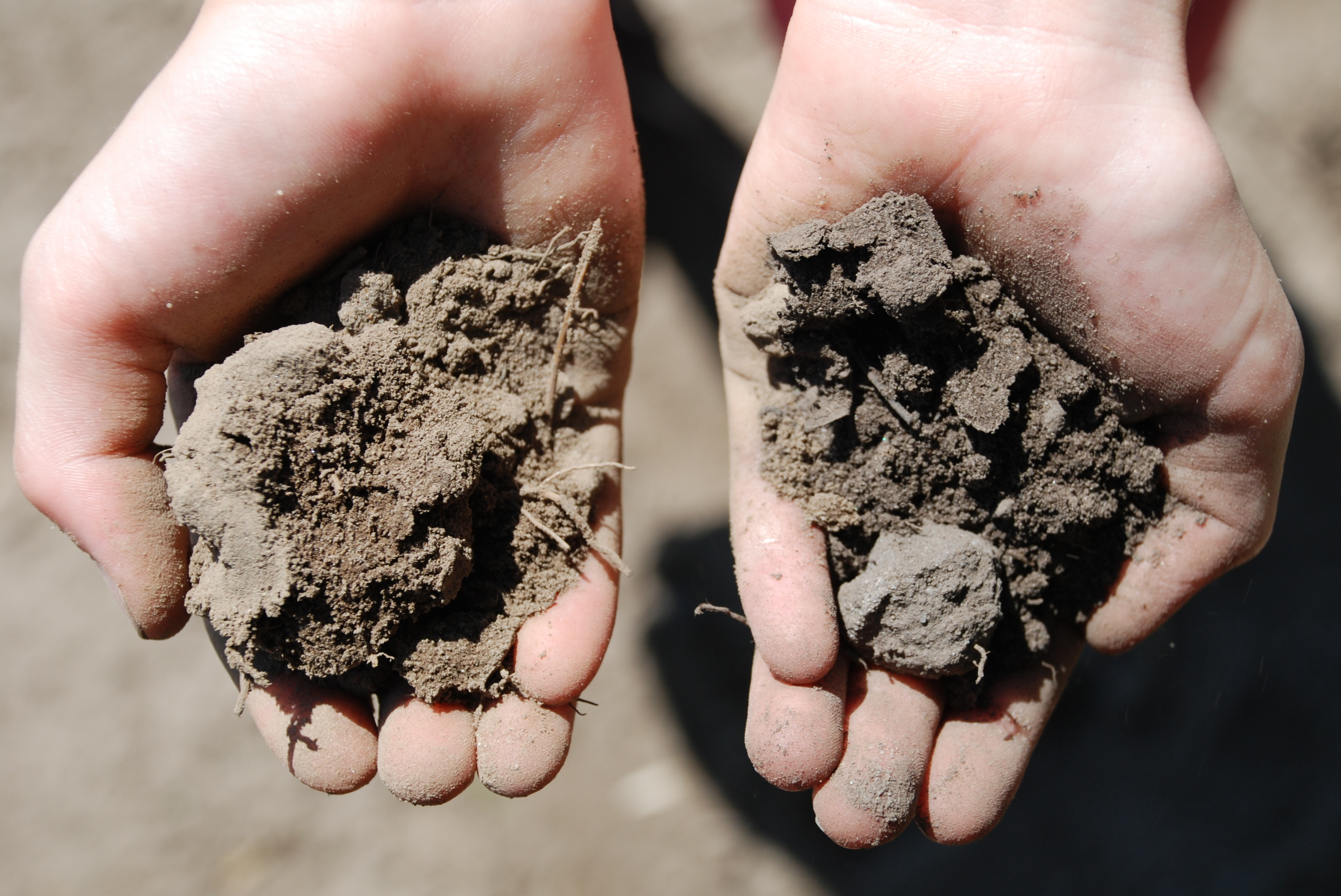 Different color of the soil at the former location of the Lüningsburg in Lower Saxony, Germany. Right: Dark soil from the rampart. Left: Light-coloured soil from the inner bailey.